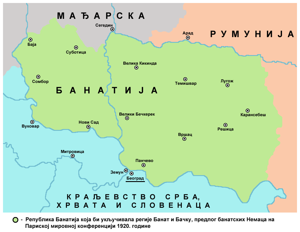 Map of the proposed Republic of Banatia (proposed by Banatian Germans at a Paris Peace Conference in 1920).